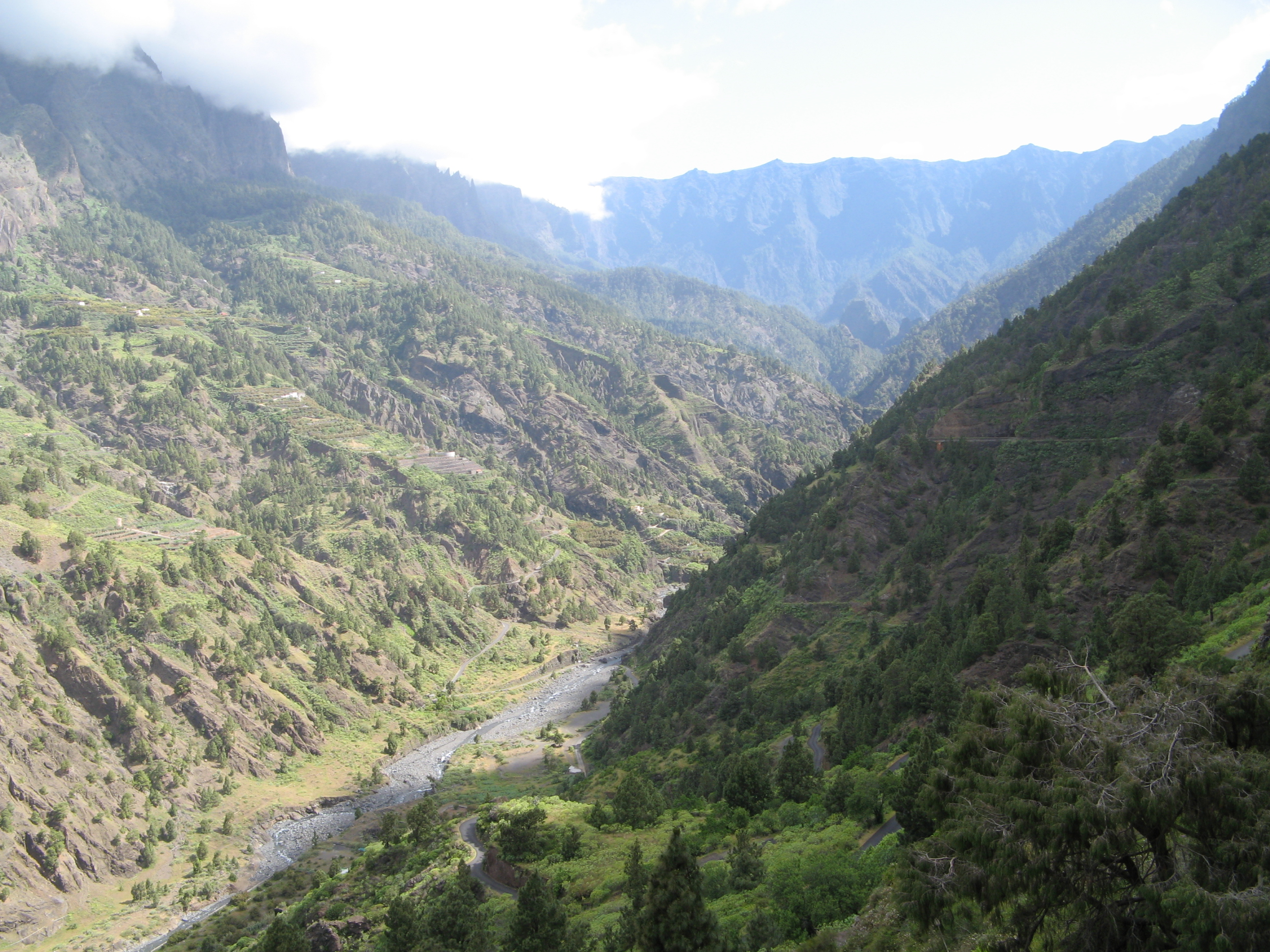 Barrancos de las Angustias